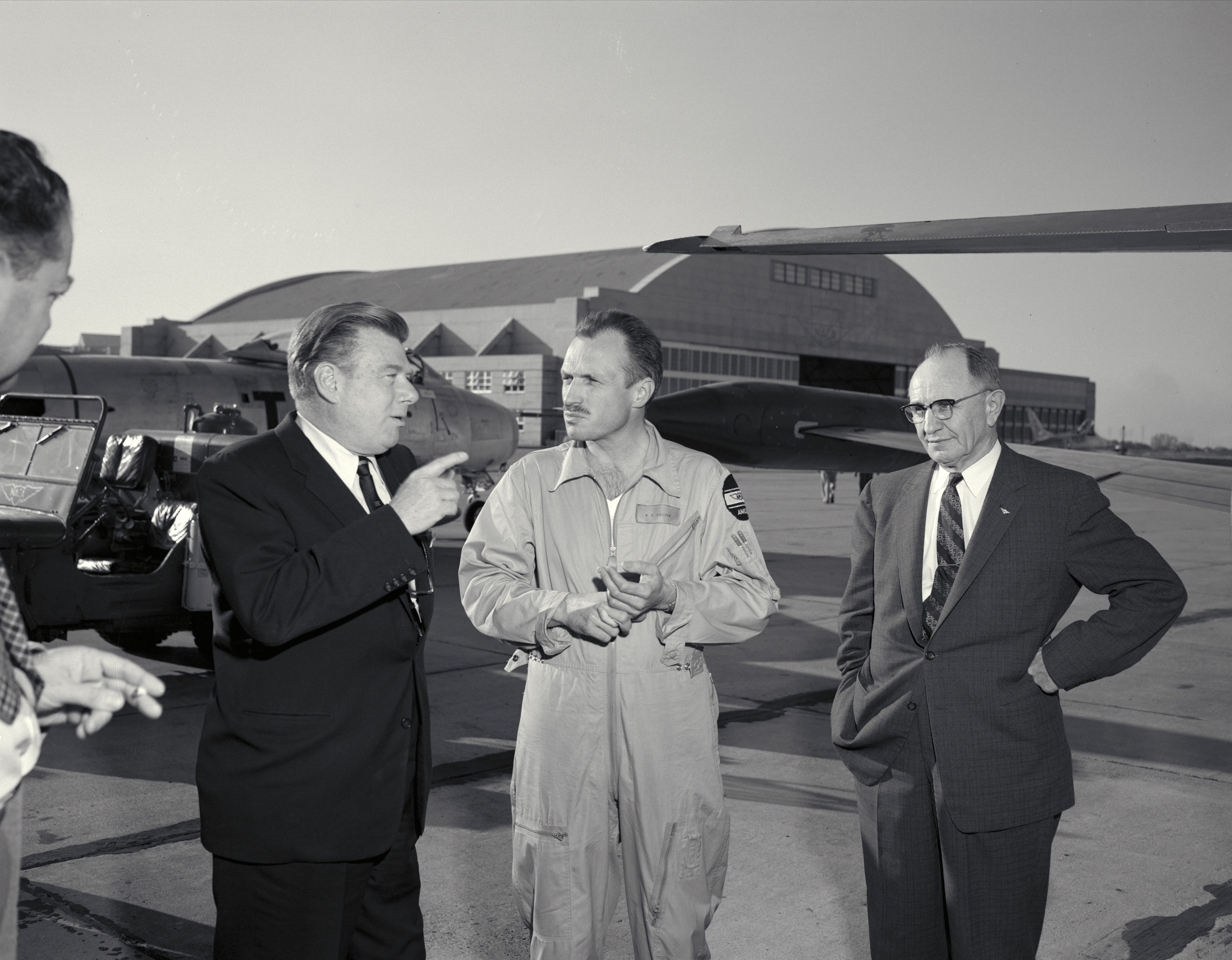 Radio and early television personality Arthur Godfrey, (left) has a discussion with NACA civilian pilot George Cooper, (center) and Smith DeFrance, (right) former director of the Ames Aeronautical Laboratory, now NASA Ames Research Center, on the ramp at Moffett Field, California.